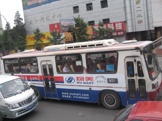 A Jinghua BK6980CFK (K means air-conditioned) on Route 801. This type was built in 1997, followed by the inauguration of this route in August 1997.